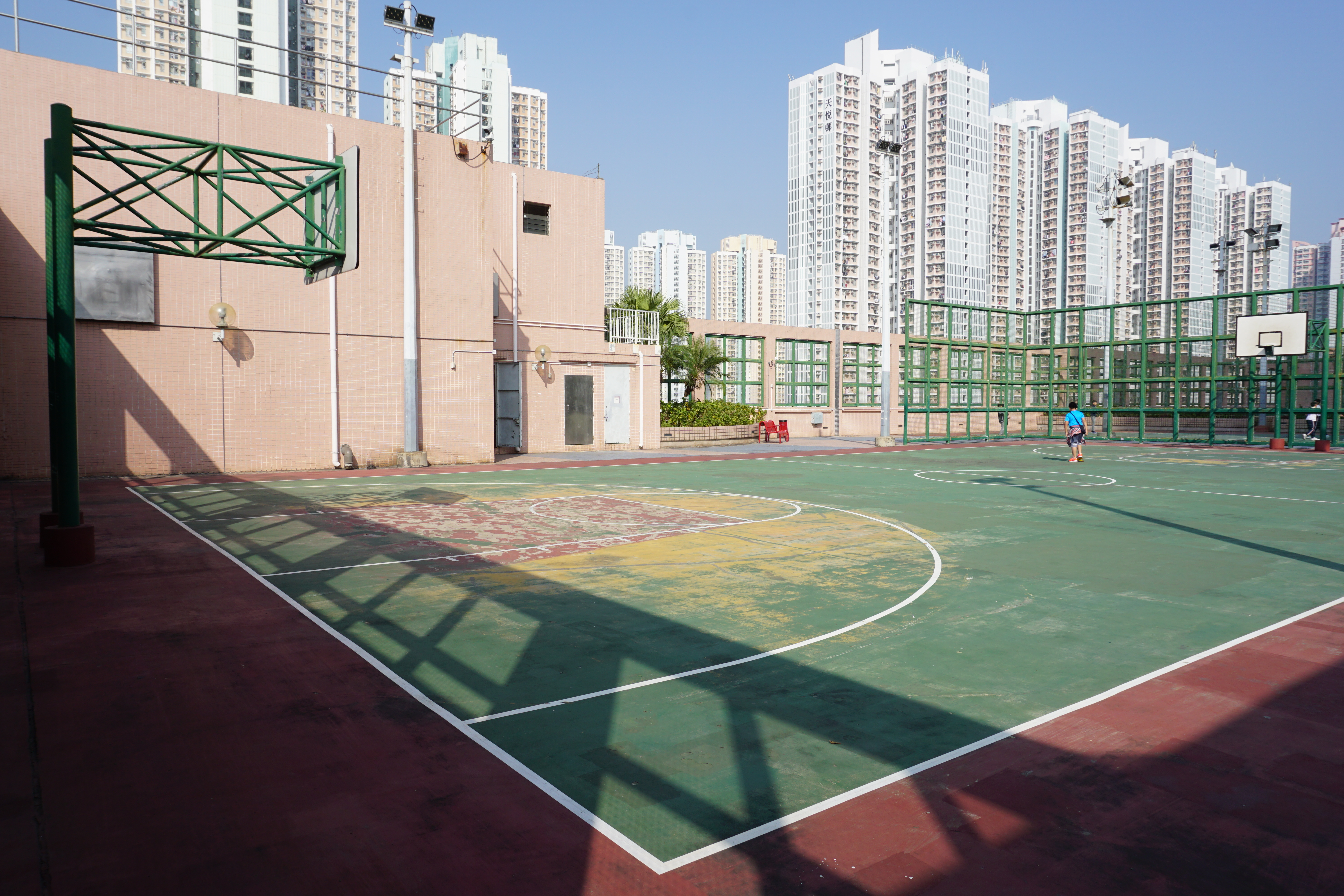 Tin Chung Court in Tin Shui Wai, Hong Kong.